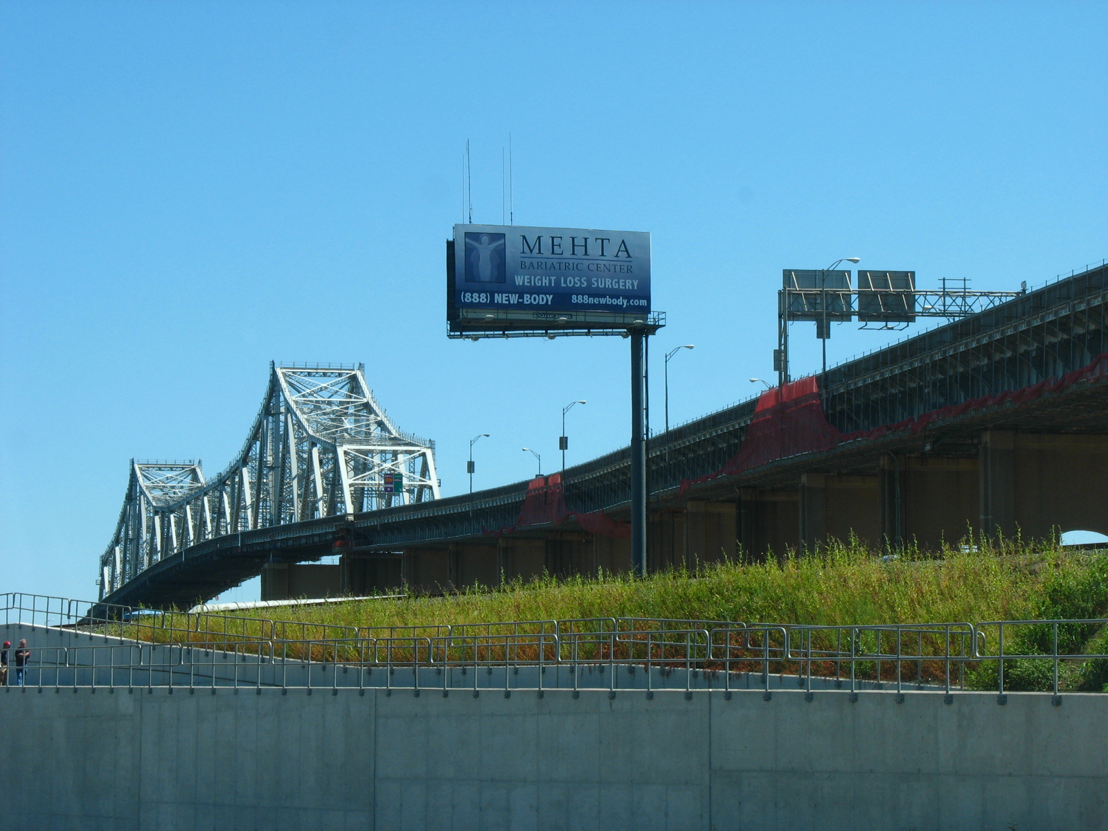 The Goethals Bridge as seen looking east from Elizabeth